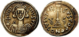 Lombards, Beneventum (nowdays Benevento. Gisulf II. In the name of Justinian II. 742-751 AD. Base AV Solidus (3.92 gm). Crowned facing bust, holding globus cruciger VICTOR GVSTO, cross potent on base; monogram (for DVX, i.e. duke), V/CONOB. MEC 1, -; CNI XVIII pg.138, 2; cf. BMC Vandals pg. 162,1. Good VF. Ex Vecchi 16 (9 October 1999), lot 617.